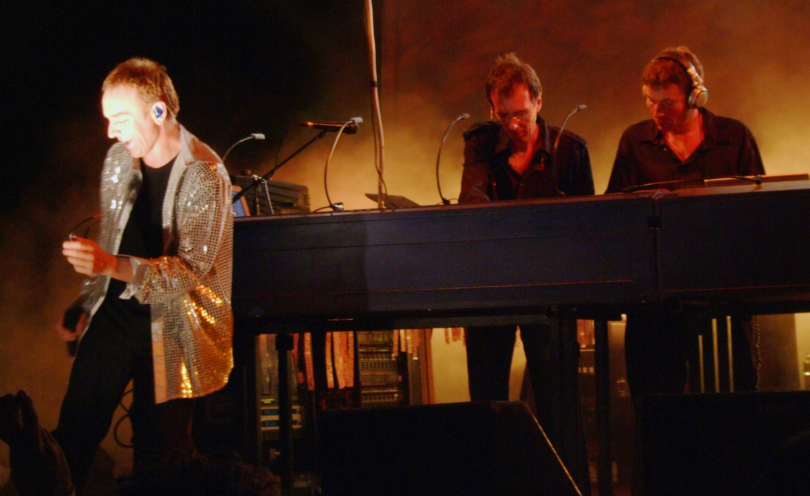 Copied from Image:Underworldlivenewyork2007.jpgUnderworld performing "Jumbo" live in Central Park, New York City, USA, on September 14, 2007.